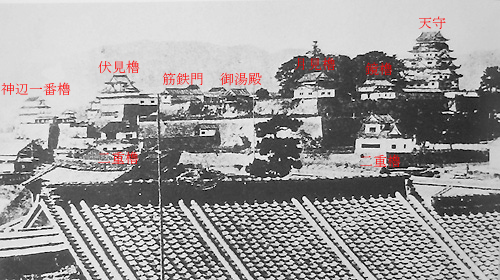 Fukuyama castle southeast side